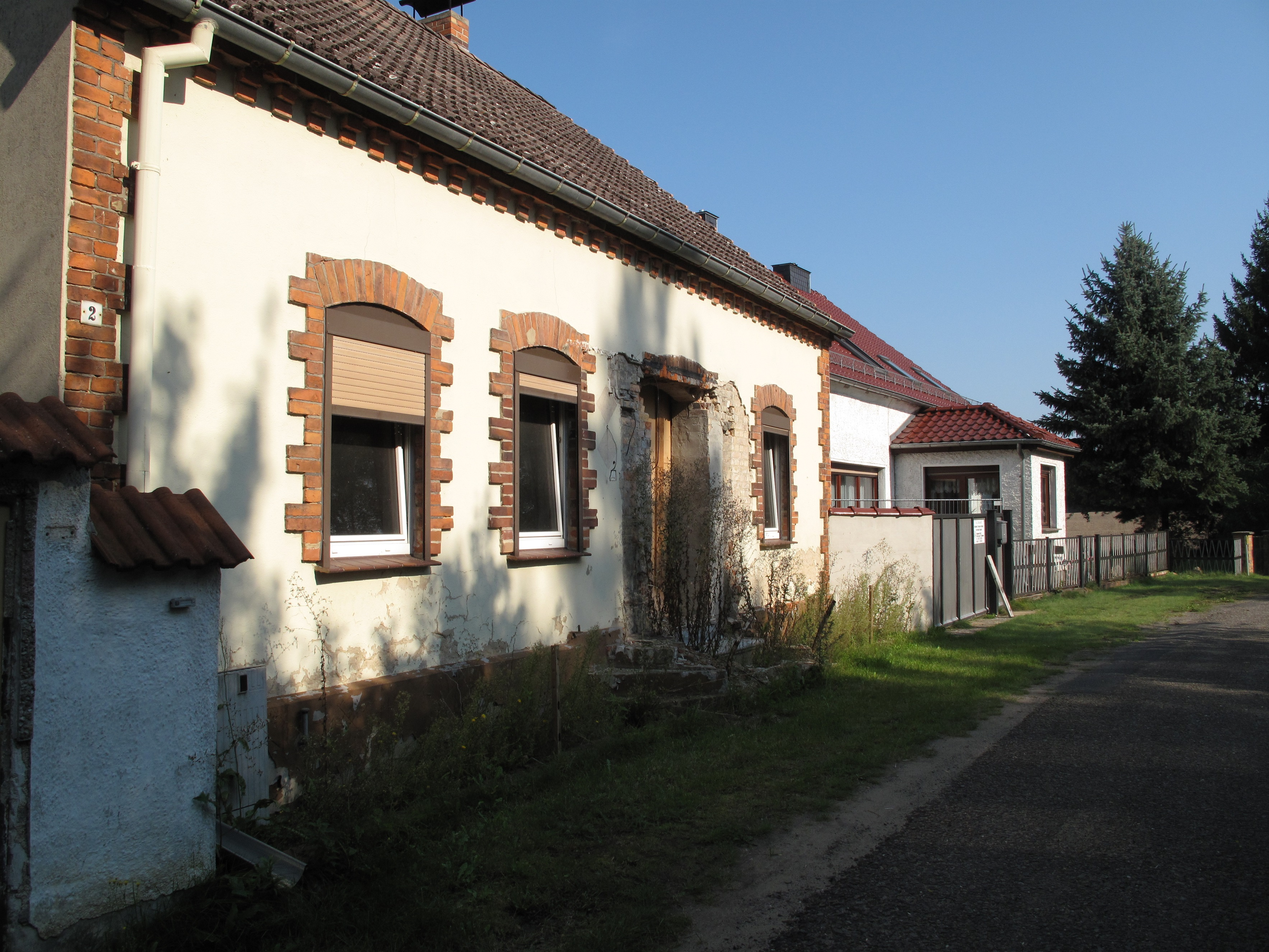 „Schwenower Dorfstraße“. Schwenow is a village in the District Oder-Spree, Brandenburg, Germany. Schwenow belongs to Limsdorf, a part (german: Ortsteil) of the town Storkow.